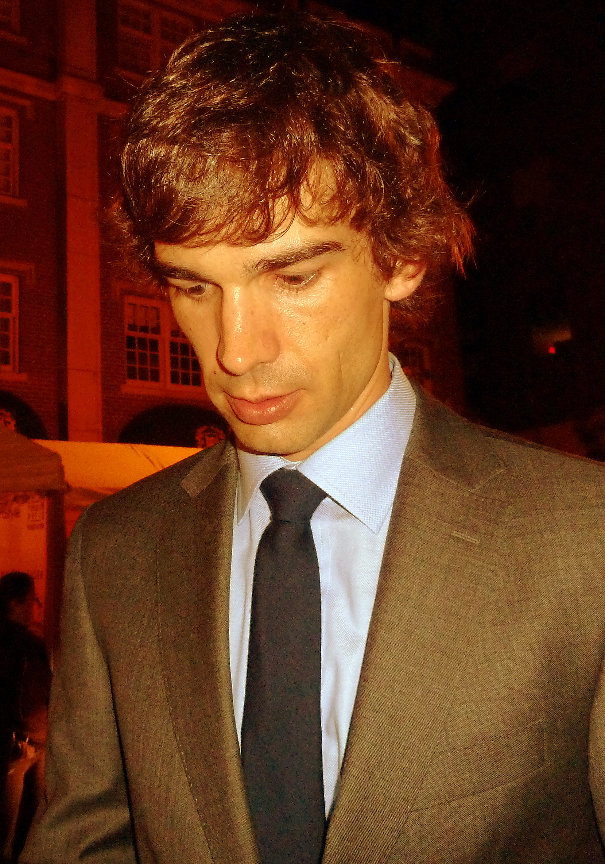 Christopher Gorham at the Toronto International Film Festival 2011.